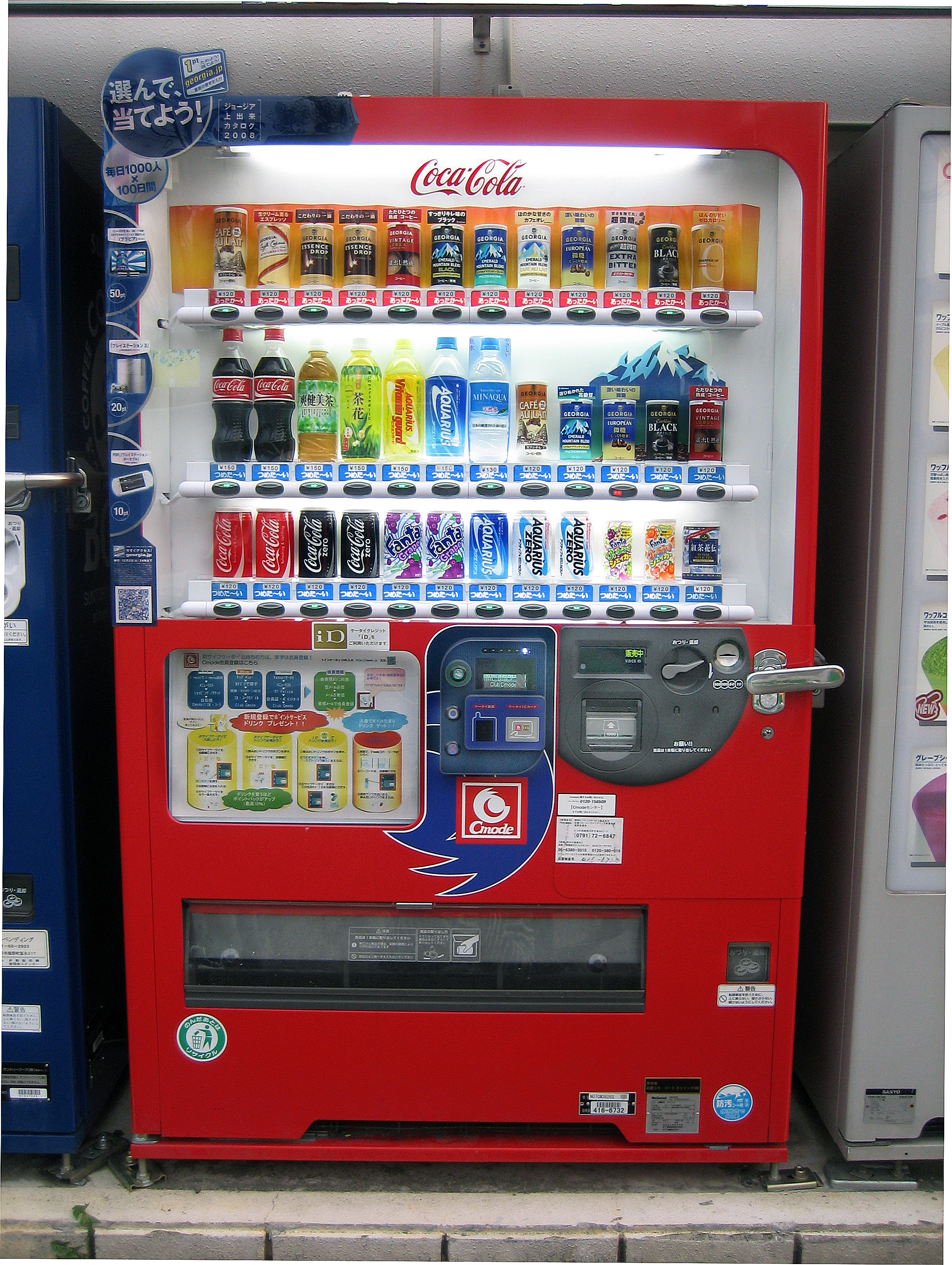 Soft drink vending machine in Japan. It is soft drinks made by Coca-Cola (Japan) Company that it is sold, there are coke and coffee from 500ml to 190ml.